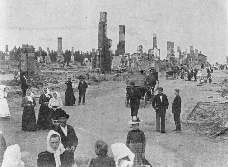 1918 Finnish civil War: Kolikkoinmäki working-class district of Vyborg after the White Army artillery fire.